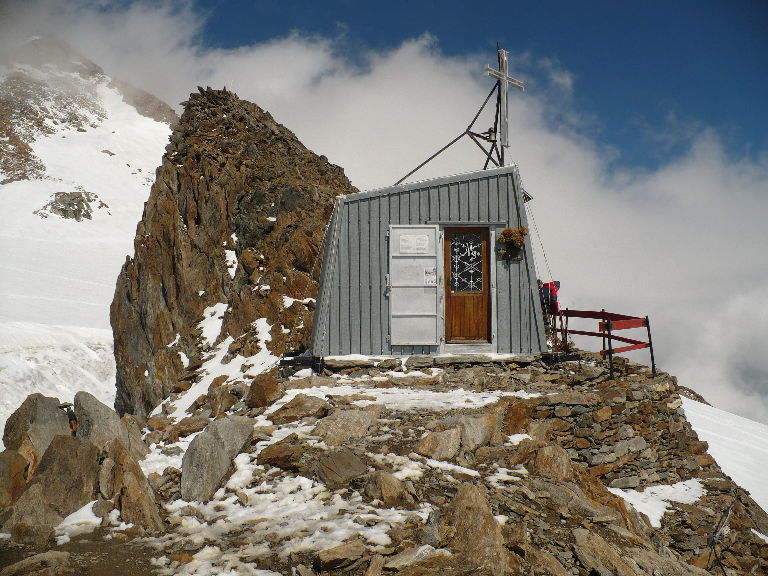 Chapel near Capanna Giovanni Gnifetti - Lys valley - Aosta valley - Italy